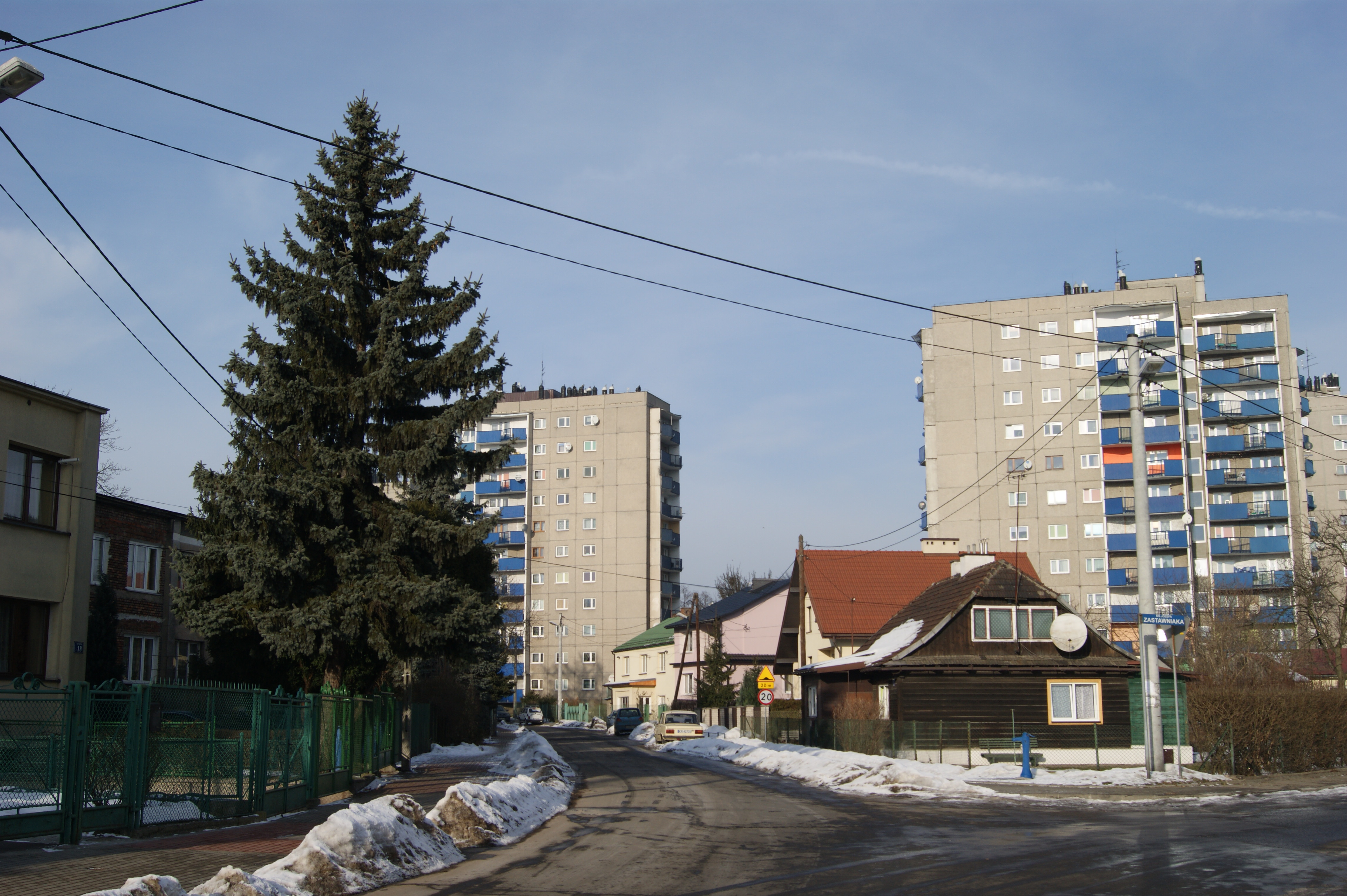 Czyzyny, Wezyka street,Krakow,Poland